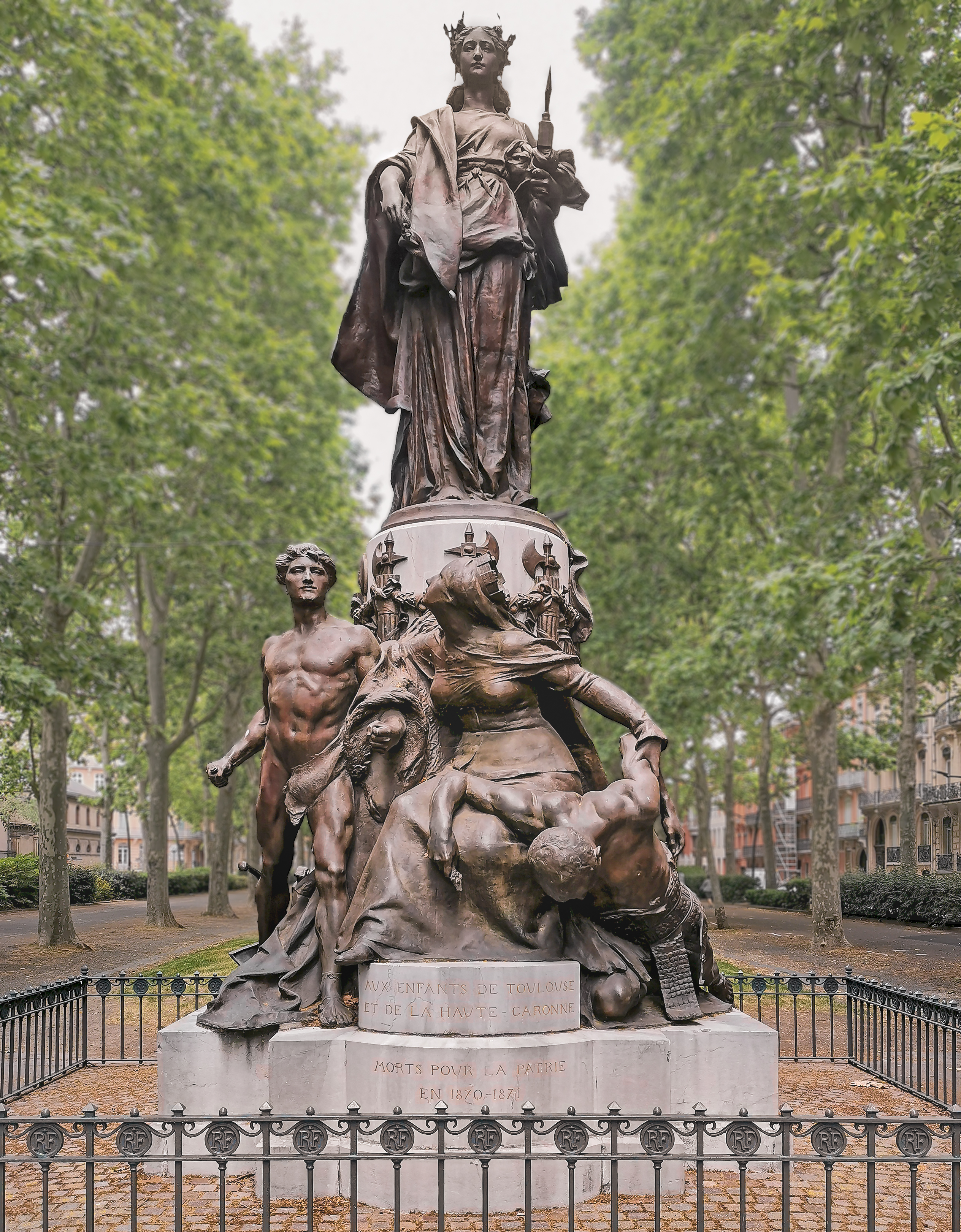 Monument to the combatants of 1870, in Toulouse.